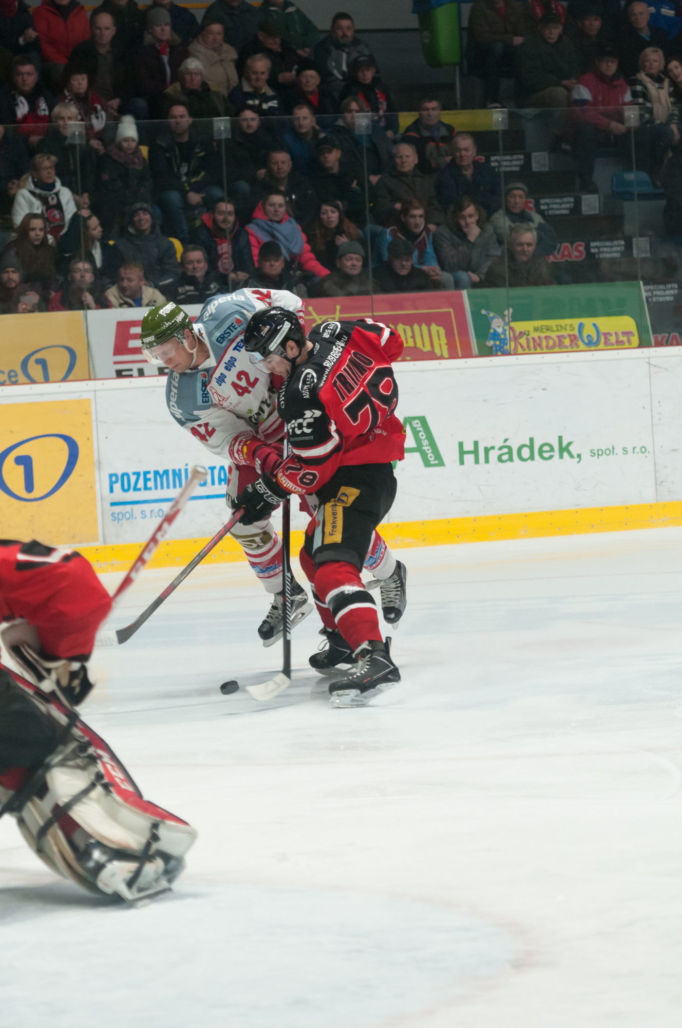 EBEL Orli Znojmo vs. HC Bolzano 2016-02-05